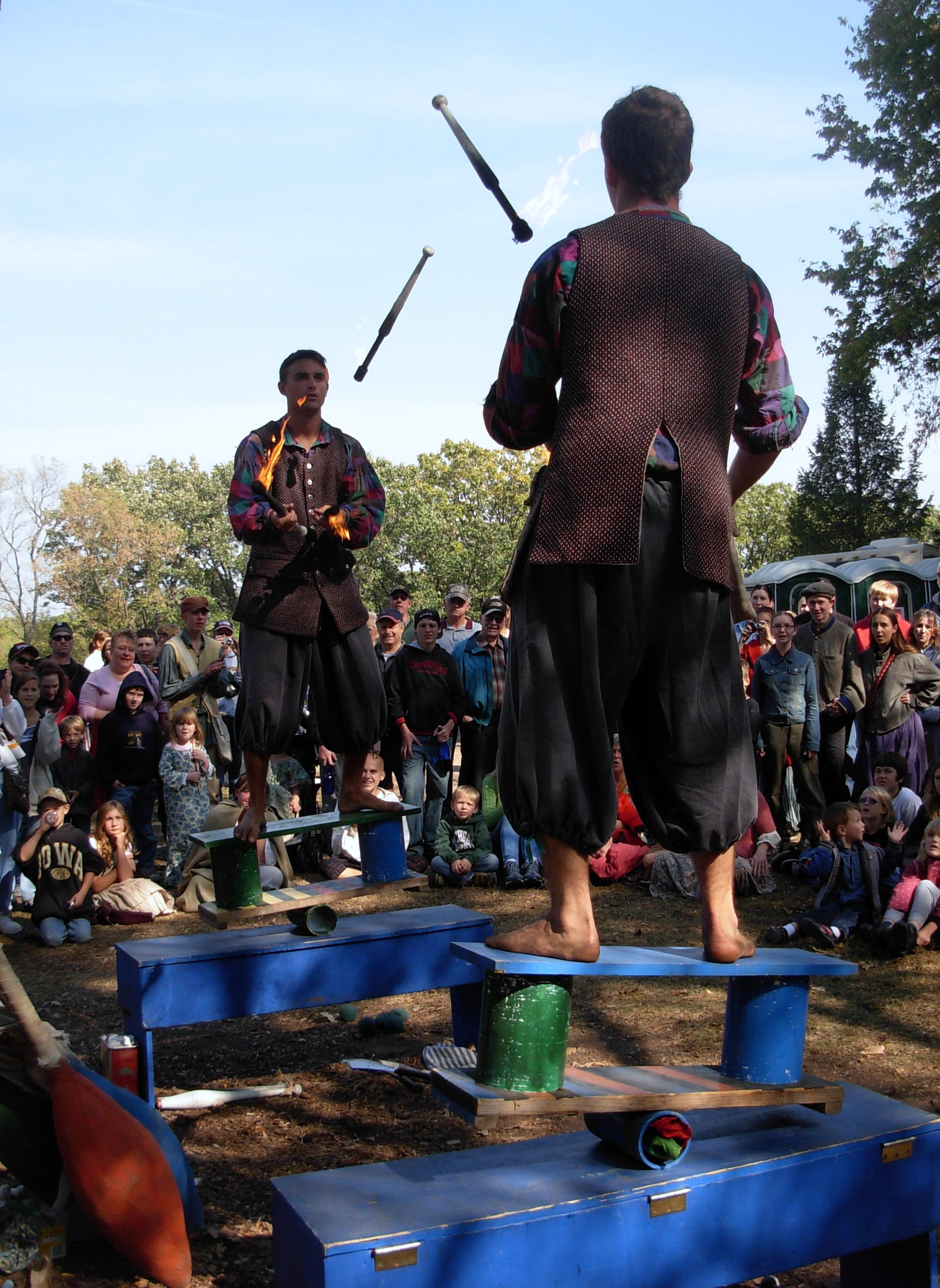 Performers juggling flaming torches in a public park in Albert Lea, Minnesota.